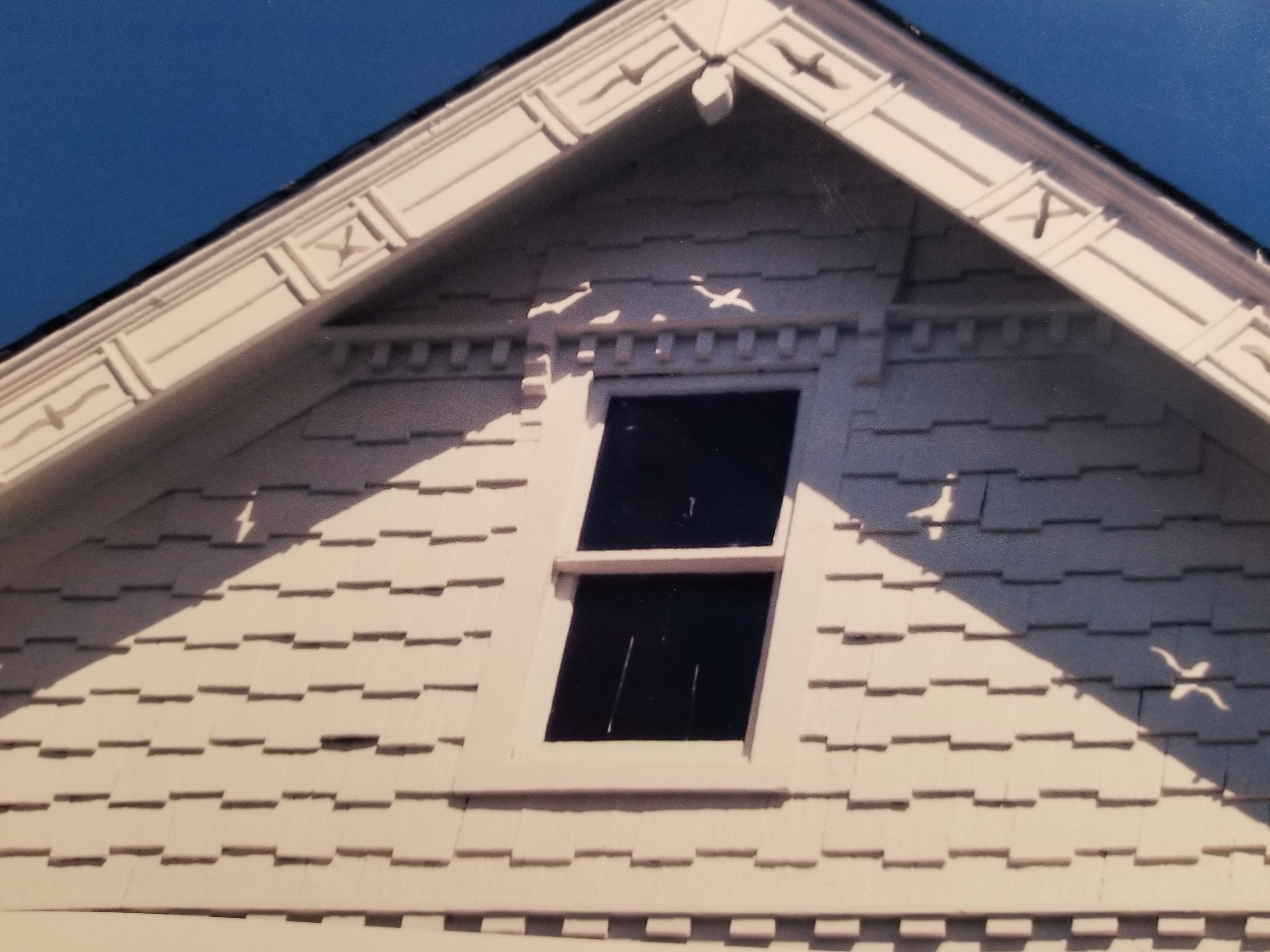 When the sun shines against these carvings on the eaves of Crossman House it creates the illusion of flying birds.